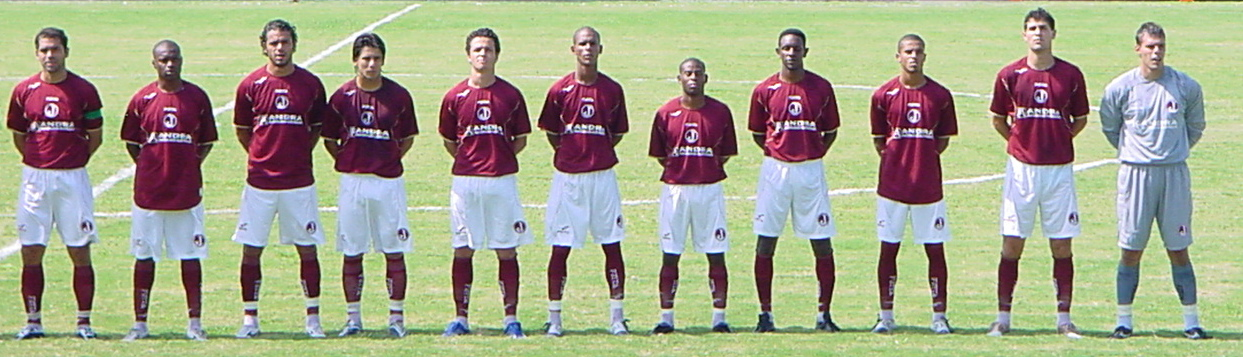 Juventus Squad for '07 Season